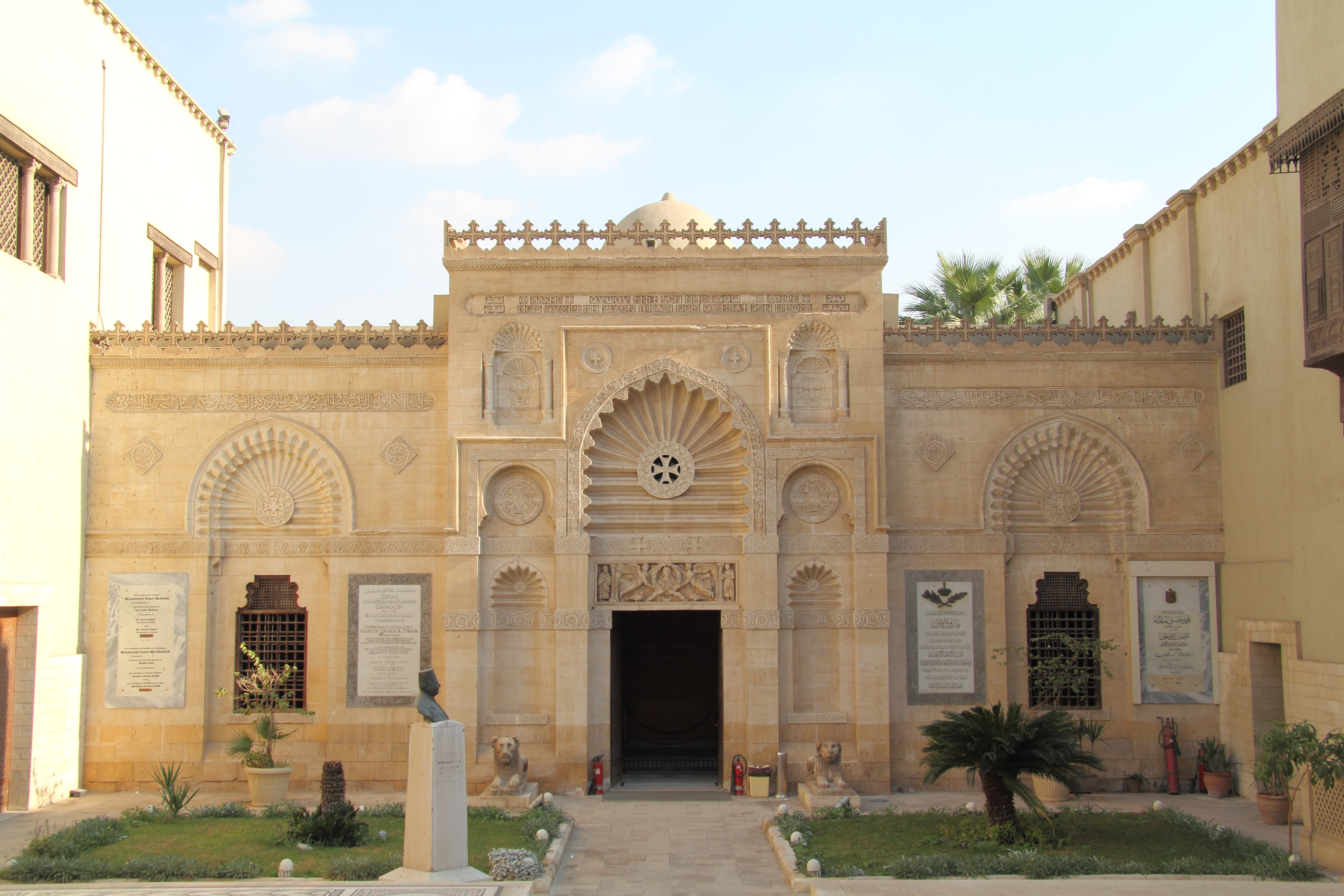 Old Cairo: Coptic Museum in Babylon Fortress in Egypt